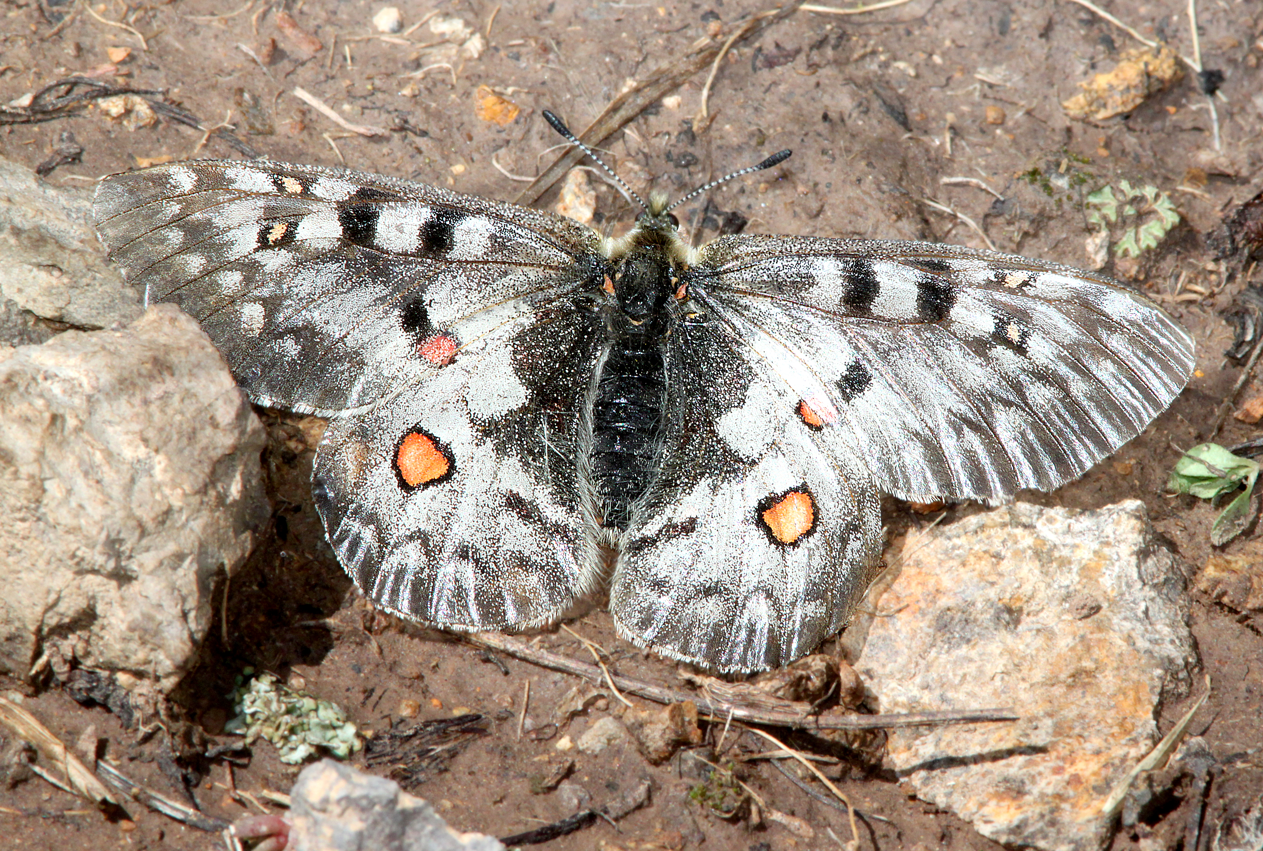 Rocky Mountain parnassian